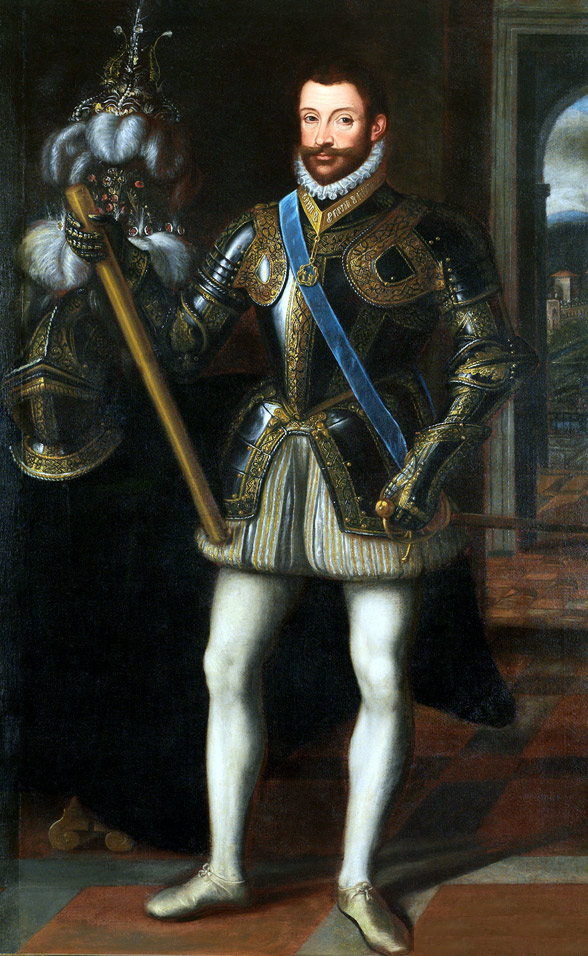 Portrait of Prince of Piemonte, Emmanuel Philibert of Savoy